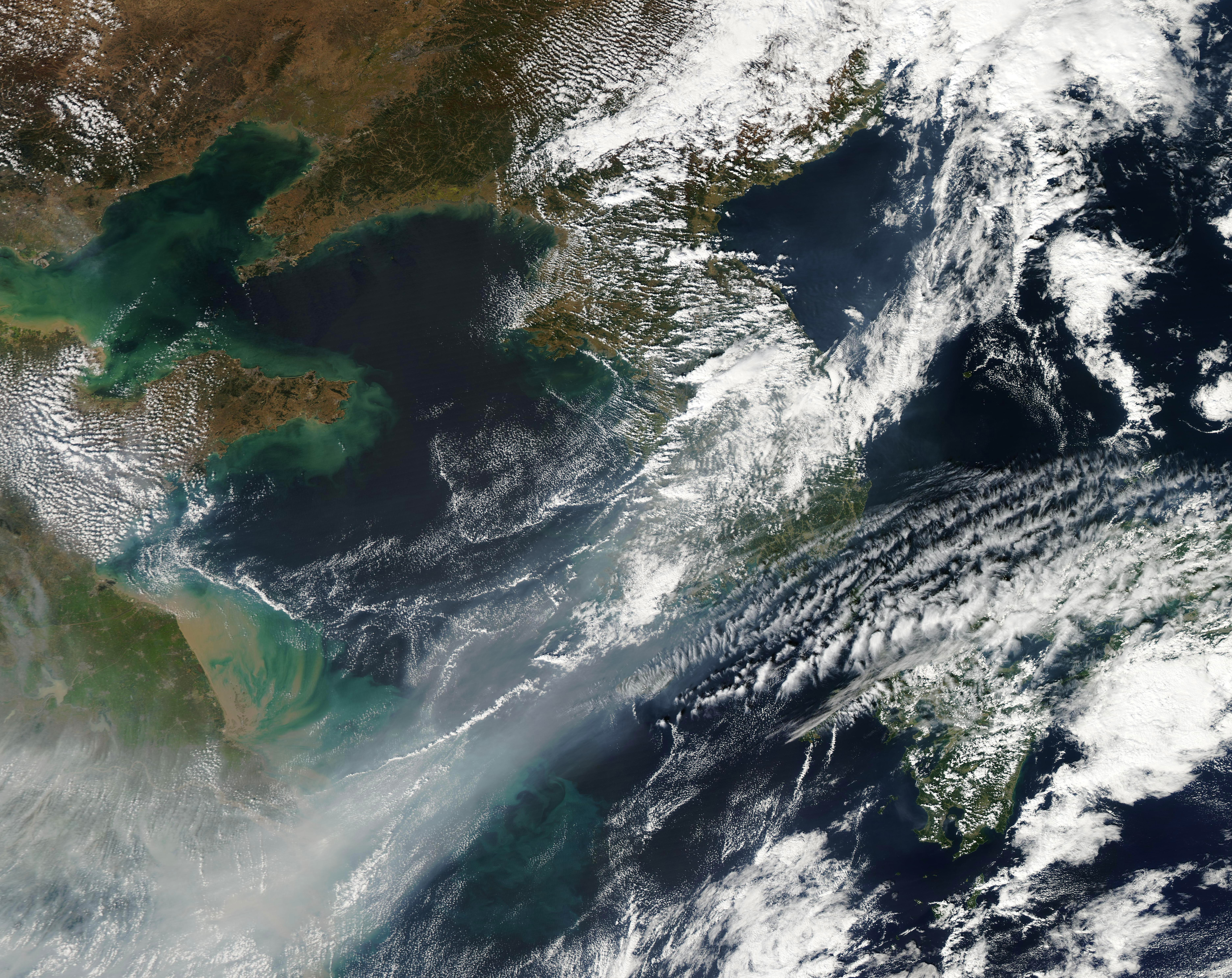 The Moderate Resolution Imaging Spectroradiometer (MODIS) on NASA’s Terra satellite captured this natural-color image of a weak cold front over the Yellow Sea, pushing all the smog in north eastern china into a "smog front+cold front"